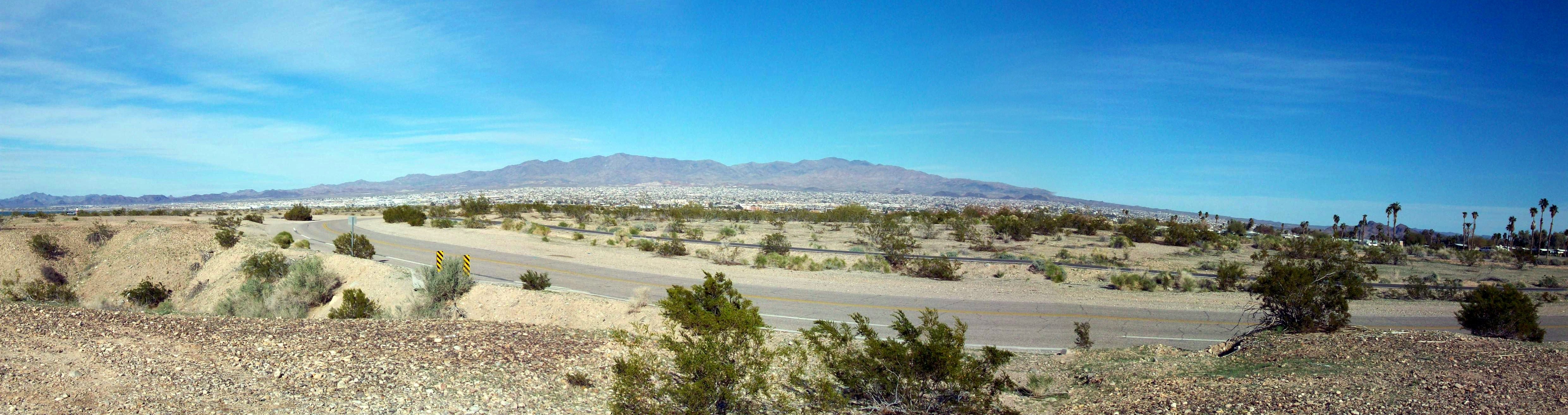 Lake Havasu City, Arizona, from the west-(southwest) edge of town. The Mohave Mountains are to the north, northeast.